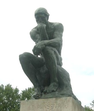 Statue of The Thinker in the Rodin Museum.